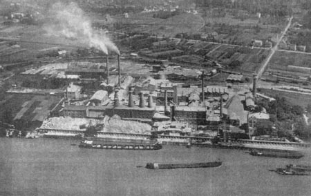 Aerial view of the Zementwerk (Cement Works) in Bonn-Oberkassel, Germany, in 1927.